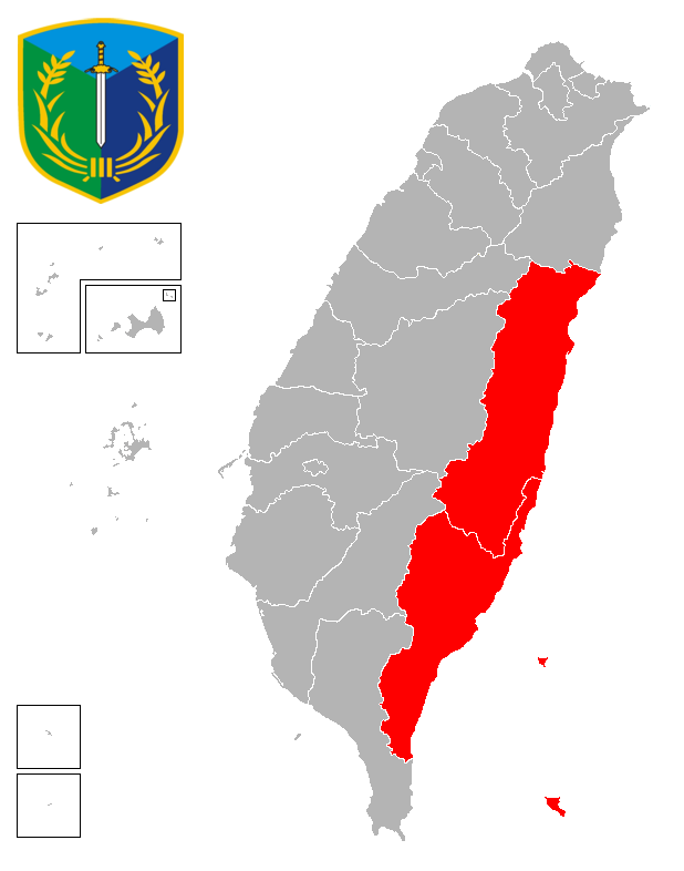 Area of Responsibility map of Hualien & Taitung Defence Command, Republic of China Army.